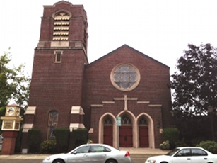 Image of St. Mary Catholic Church on 1062 Charnelton St.